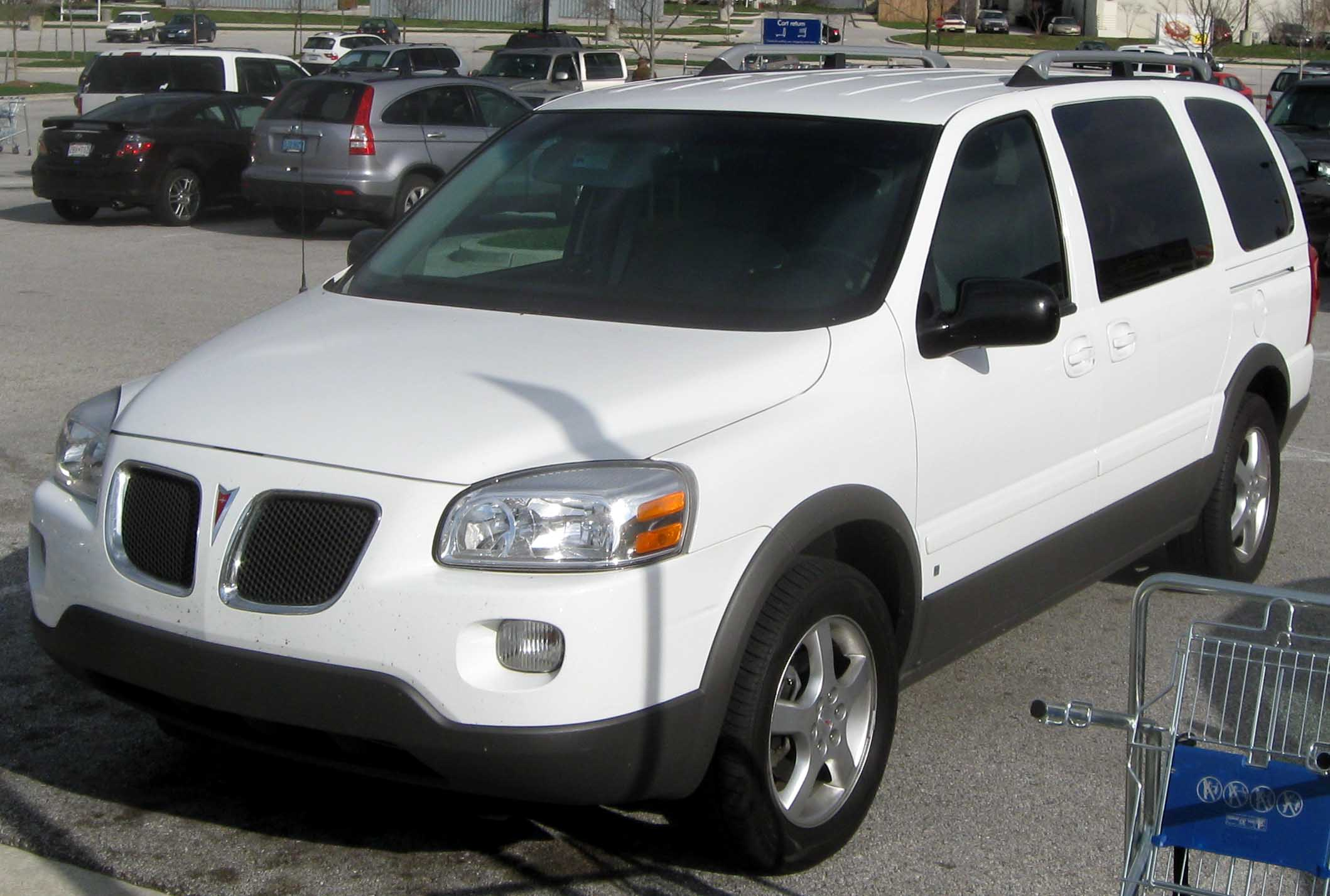 2005-2006 Pontiac Montana SV6 photographed in College Park, Maryland, USA.